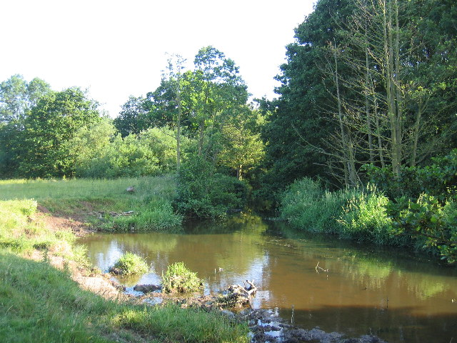 River Alne. A watering shallows for the local cattle in the middle of the square seen from the footpath to Henley in Arden.